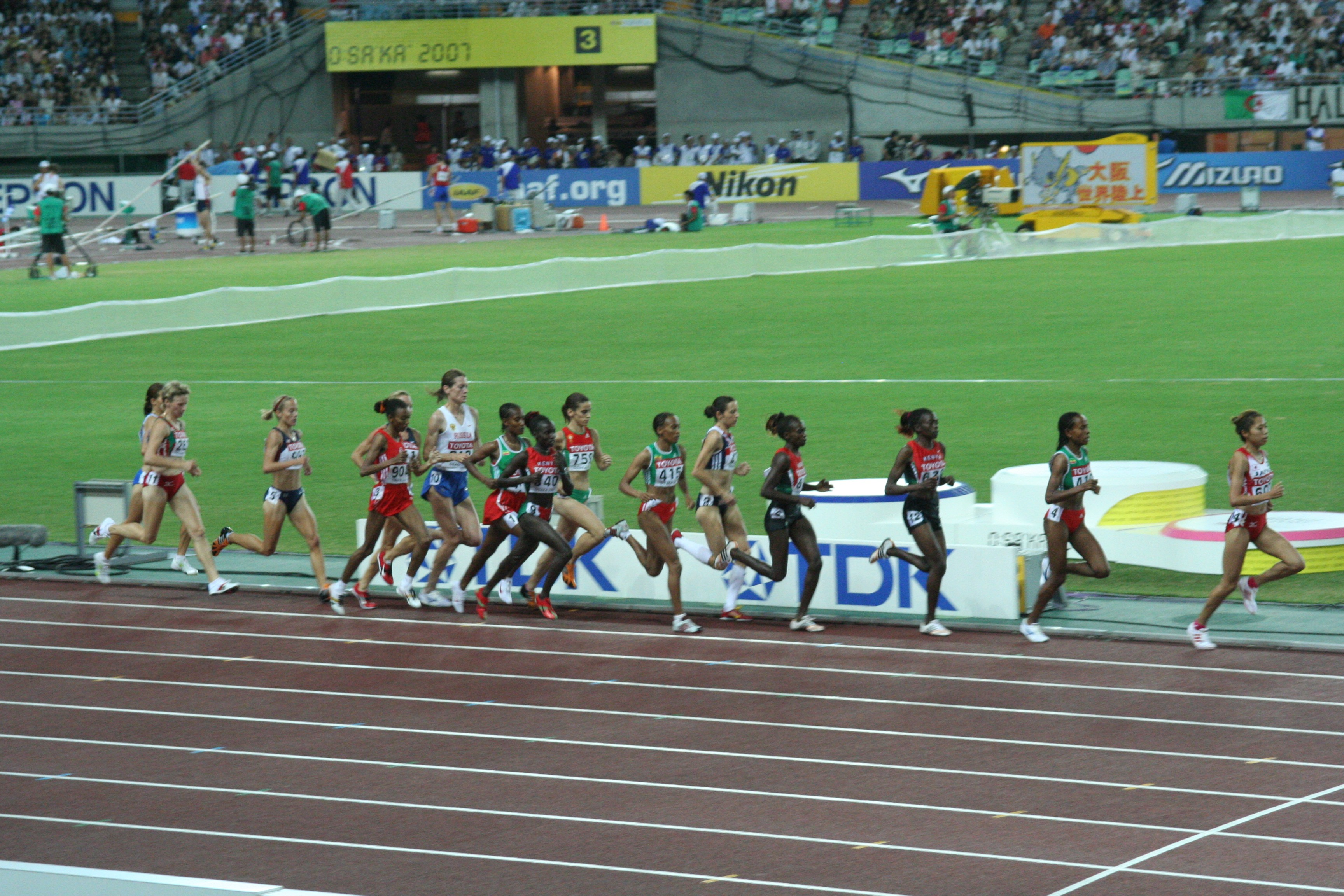 World Athletics Championships 2007 in Osaka - Scene from the women*s 5000 metres final: Silvia Weissteiner, Volha Krautsova, Jennifer Rhines, Elvan Abeylegesse, Shalane Flanagan, Mariya Konovalova, Gelete Burka, Vivian Cheruiyot, Jessica Augusto, Meselech Melkamu, Joanne Pavey, Sylvia Jebiwott Kibet, Priscah Jepleting Cherono, Meseret Defar, Kayoko Fukushi